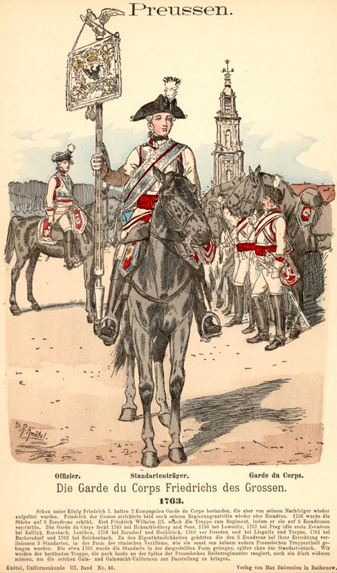 Preußen. Regiment Garde du Corps. 1763